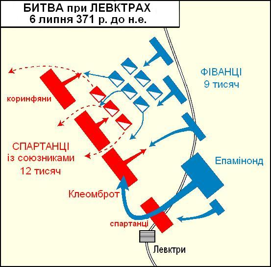 Battle of Leuctra (ukrainian)